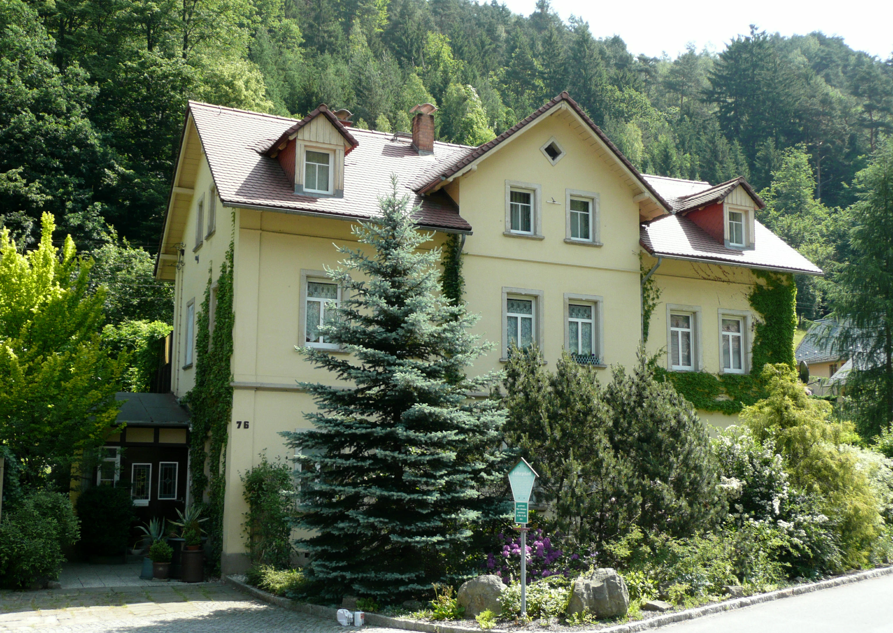 This image shows the house of Friedrich Gottlob Keller (1816-1895) in Krippen (Saxony). Keller was a german inventor. The use of wood to make pulp for paper began with the development of mechanical pulping by F. G. Keller.